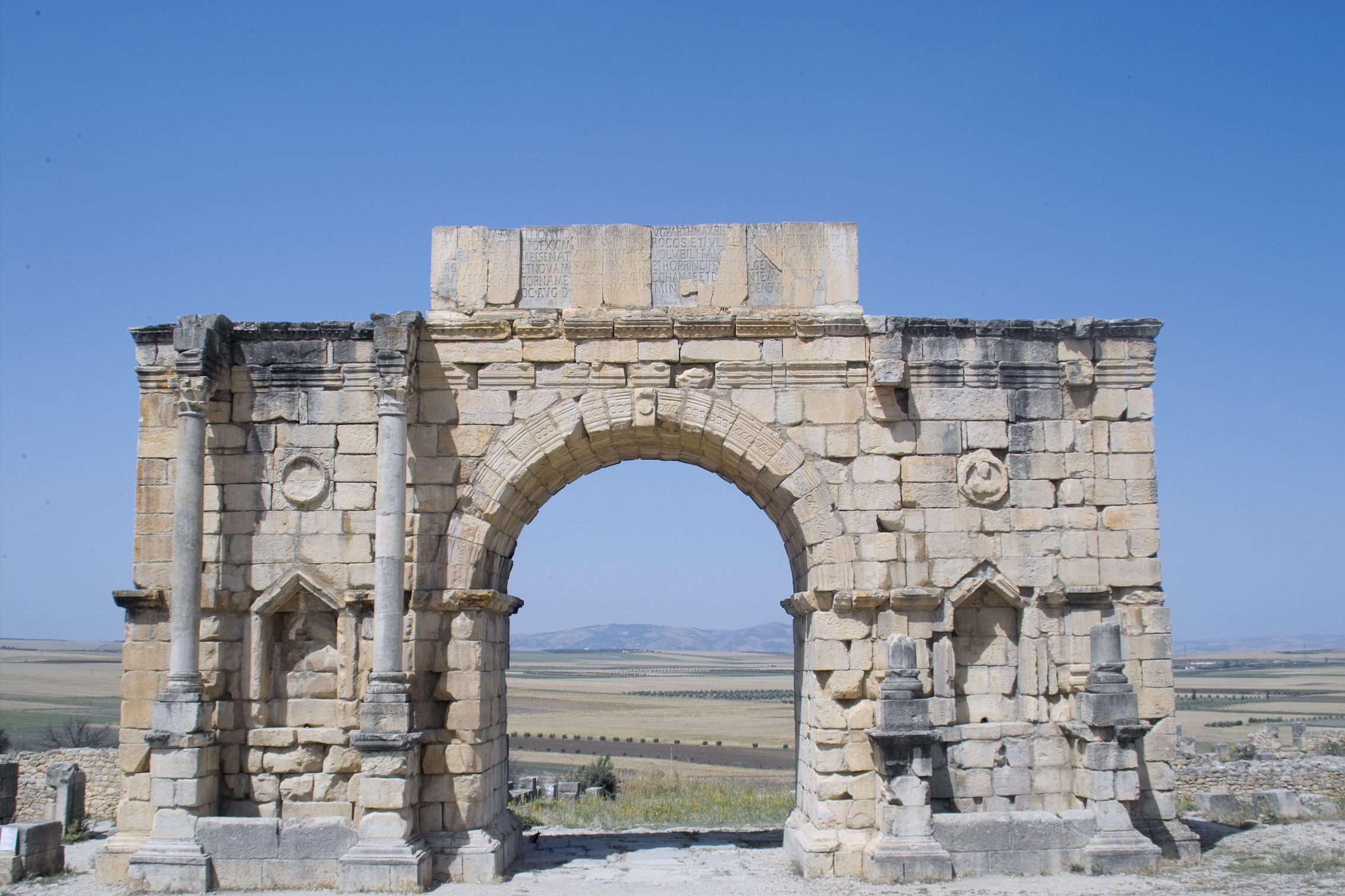 Added here to show the lower part of the monument too.